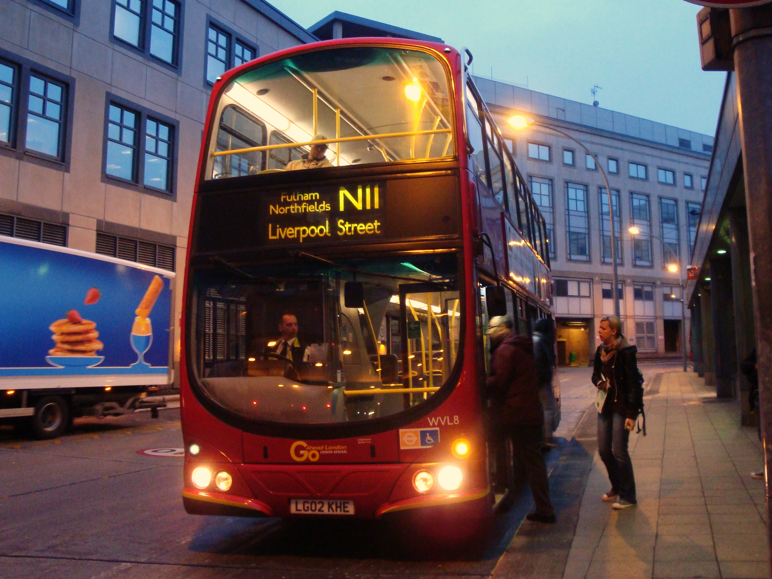 I've gotten a photo of my illusive second local night route - Route N11! London General WVL8 on Route N11, Hammersmith